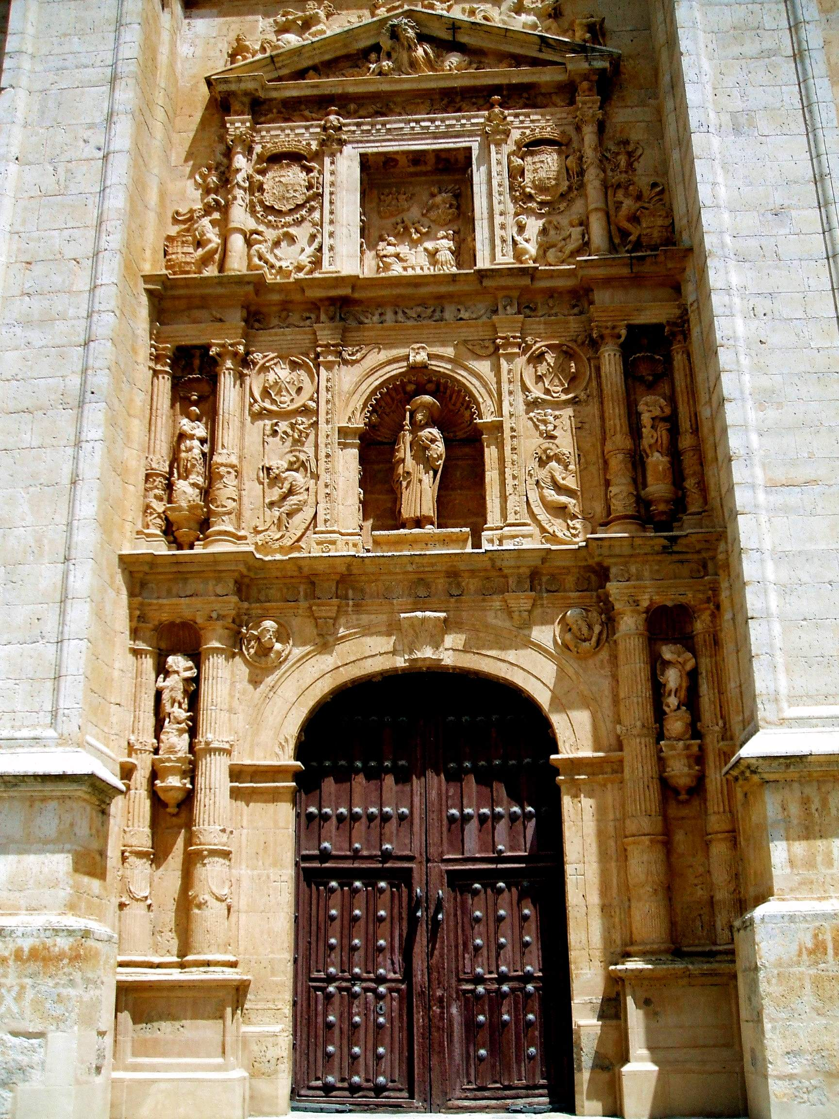 Portada plateresca (s-XVI) de Rodrigo Gil de Hontañón en la iglesia de Santiago de Medina de Rioseco (Valladolid, Castilla y León, España